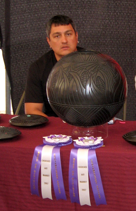 Joel Queen, Eastern Band Cherokee ceramic artist and sculptor, 2007